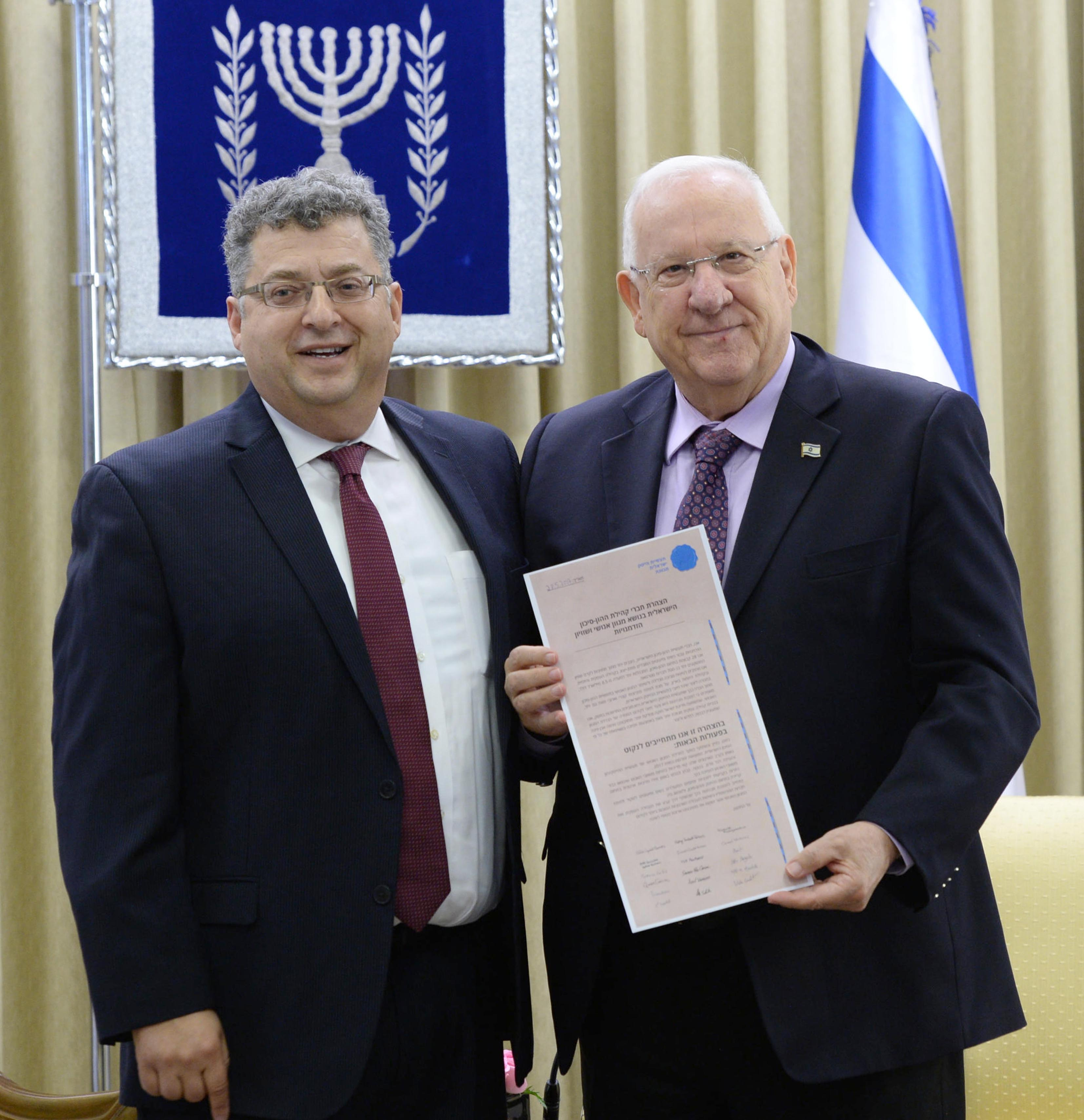 The President of Israel, Reuven Rivlin, met with the directors of the largest venture capital funds in Israel as part of the activities of the President's Residence entitled "Israeli Hope in Employment". Sunday, 3 May, 2017. Photo Credit: Mark Neiman / GPO.